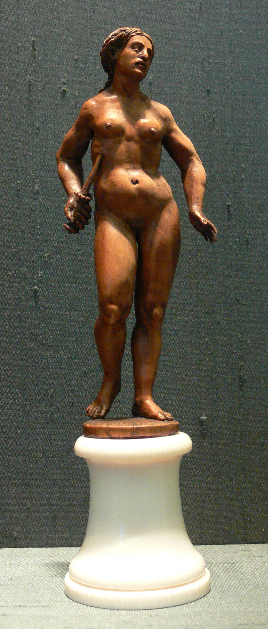 Christoph Weiditz: Lucretia; Augsburg, c. 1525; pearwood Bayerisches Nationalmuseum München, Inv. Nr. 58/35